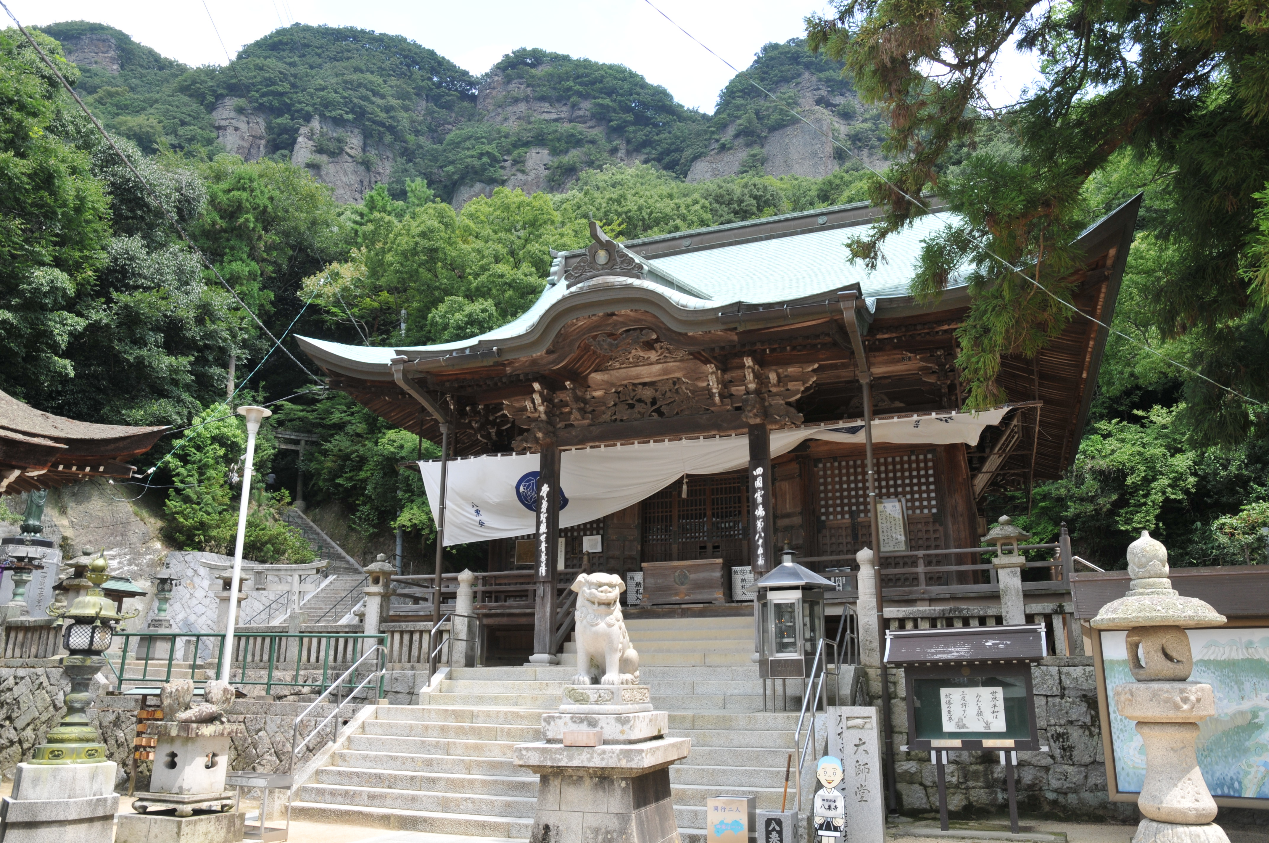 Main temple, Yakuri-ji